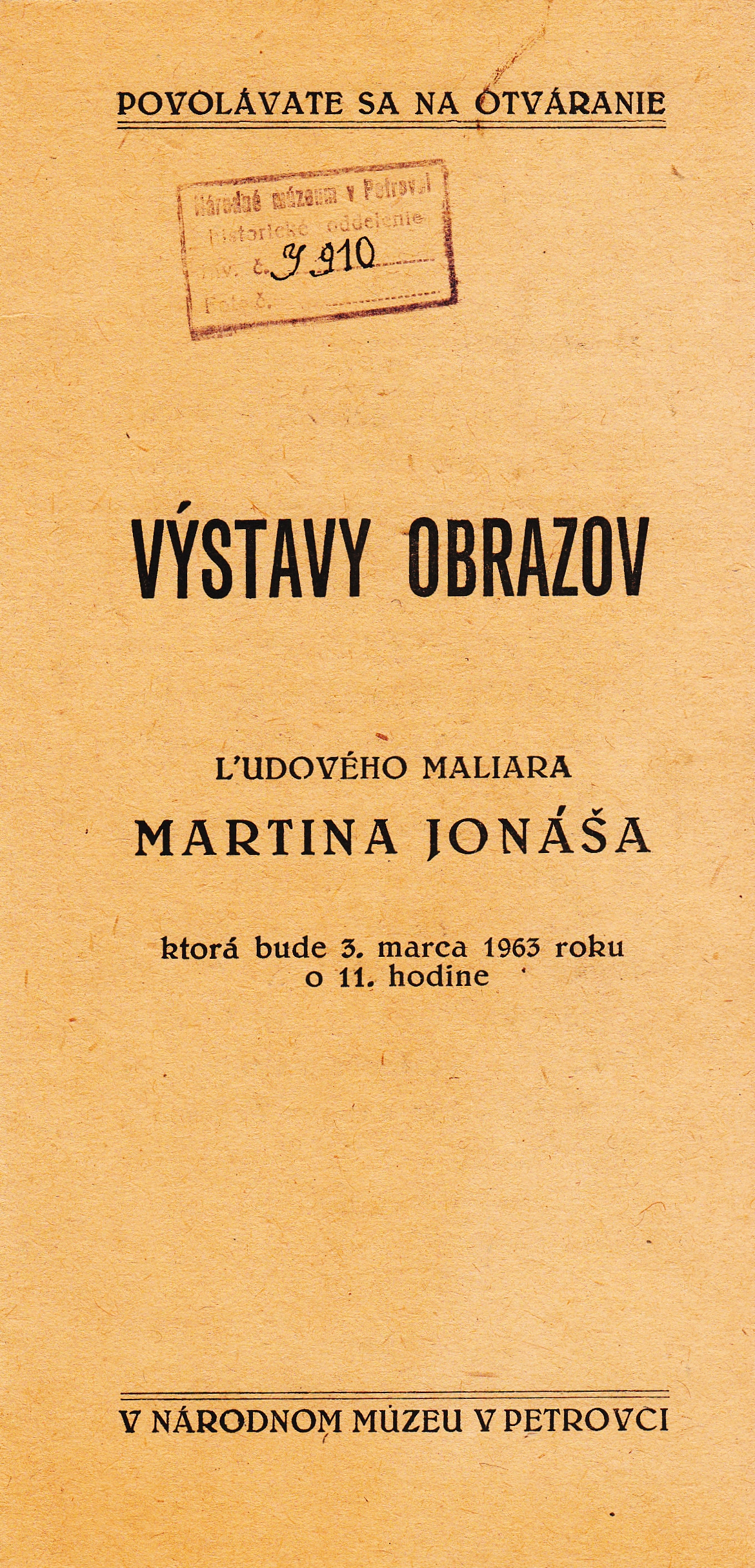 Invitation to the opening of the paintings exhibition of Vojvodinian Slovak amateur painter Martin Jonaš at the National Museum in Bački Petrovac (Vojvodina, Serbia) (1963). Inventory Number 2846. Srpski (latinica): Pozivnica na otvaranje izložbe slika slovačkog amaterskog slikara Martina Jonaša u Narodnom muzeju u Bačkom Petrovcu (1963). Inventarski broj 2846.